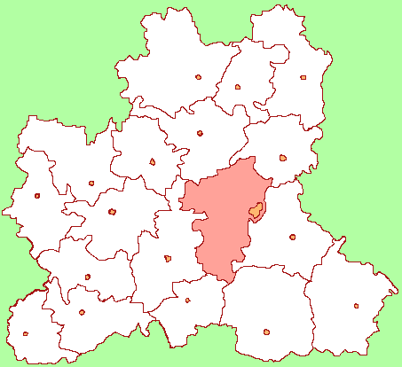 Lipetsk Oblast map by Al Silonov